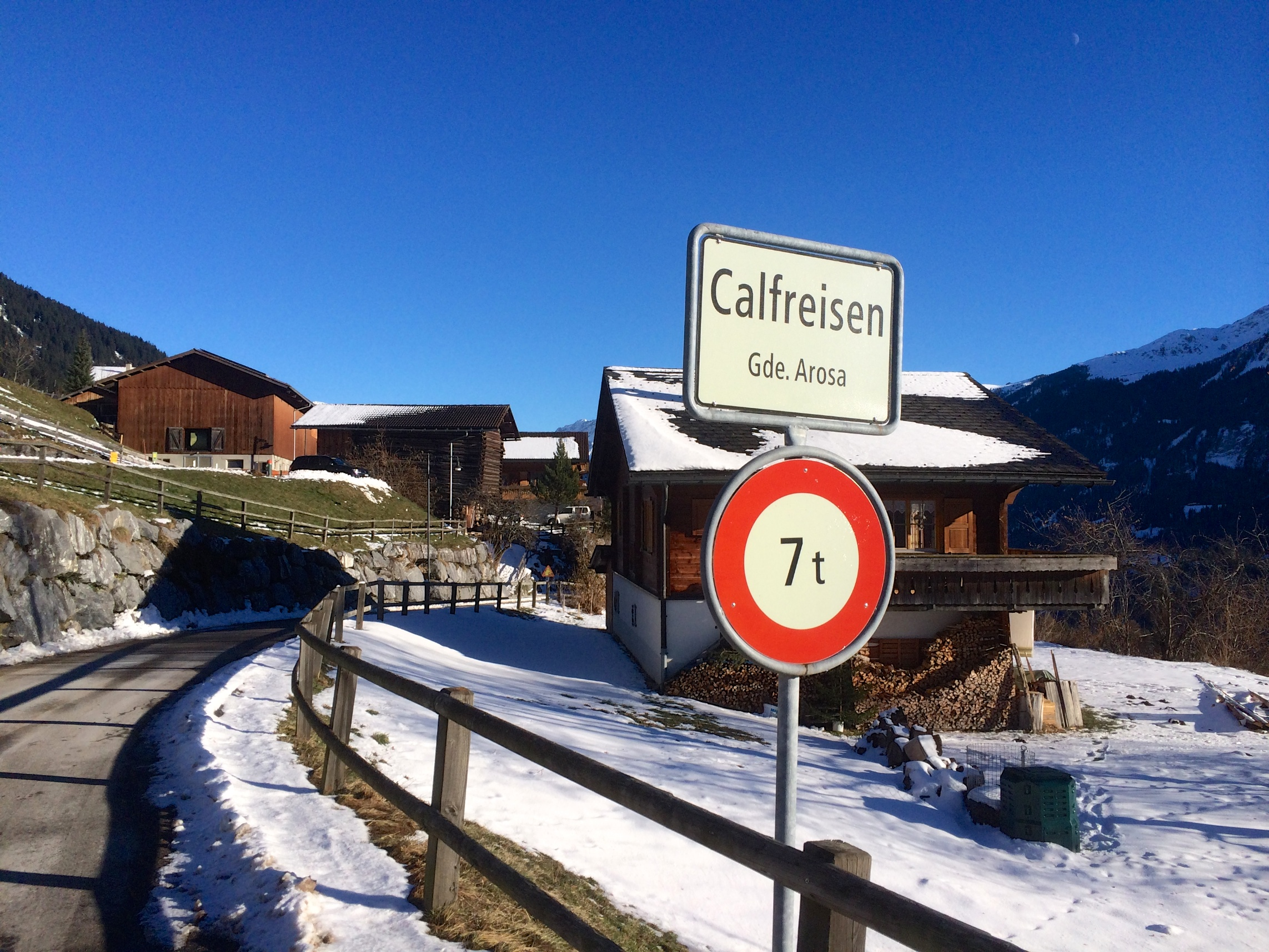 village limit sign in Calfreisen/Arosa